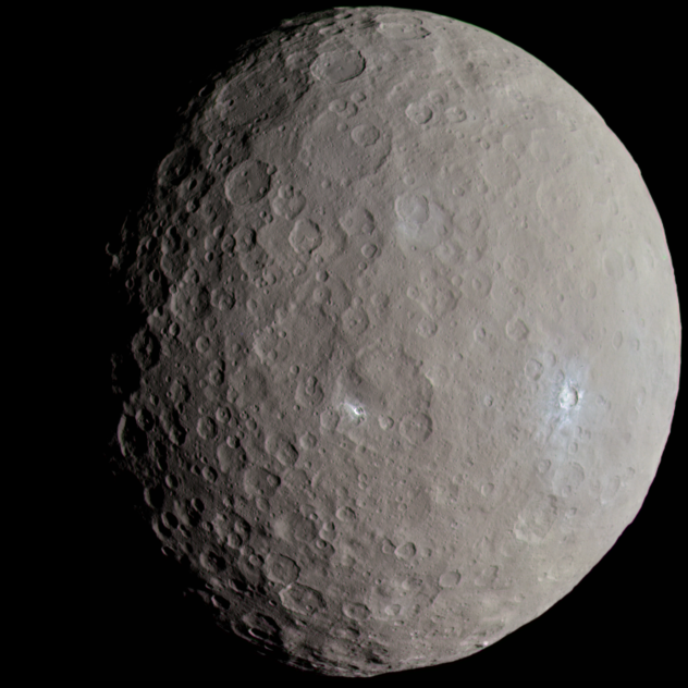 A view of Ceres in natural colour, pictured by the Dawn spacecraft in May 2015. This image was taken on 2 May 2015, during a "rotation characterization" orbit, 13,642km above the surface of Ceres. Visible at center and center right are two bright spots, a phenomenon common on Ceres, in Oxo and Haulani craters respectively. Ahuna Mons is also visible in the image as a noticeable, bluff hill, seen just right of bottom.